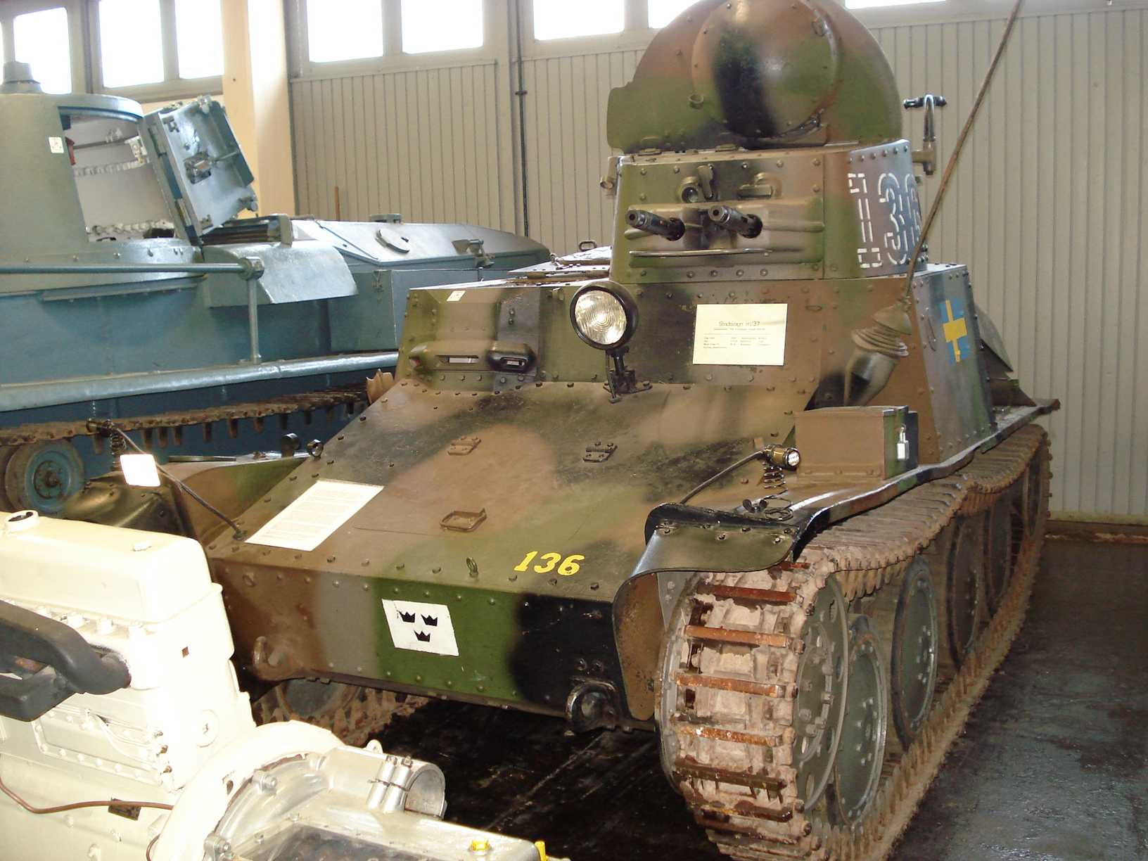 Stridsvagn m/1937 on display at Tankmuseum, Axvall, Sweden.